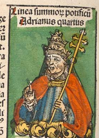 15th-century illustatrions of Pope Adrian IV from the Nuremberg Chronicle, printed c.1493.